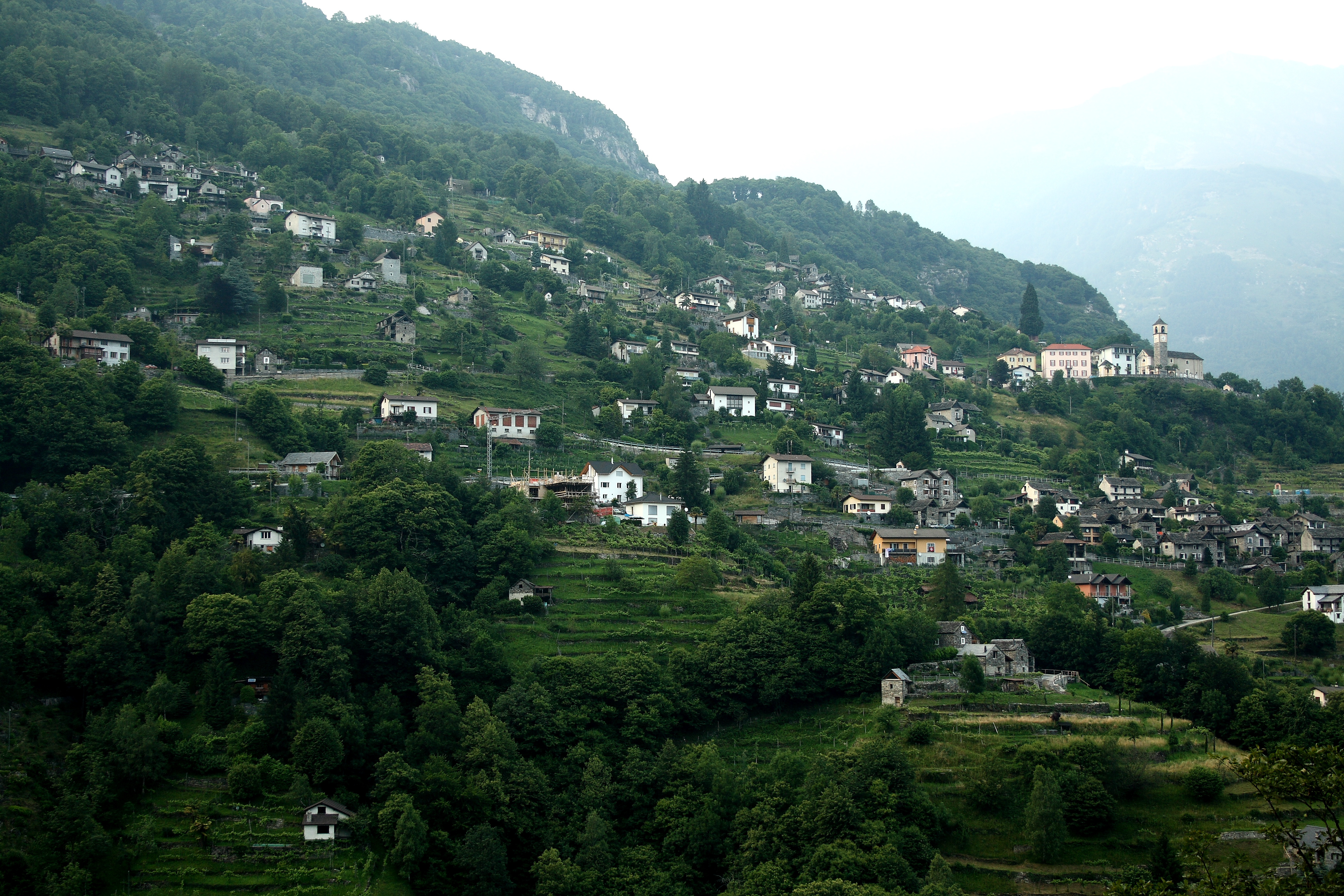 Mergoscia, Ticino, Switzerland